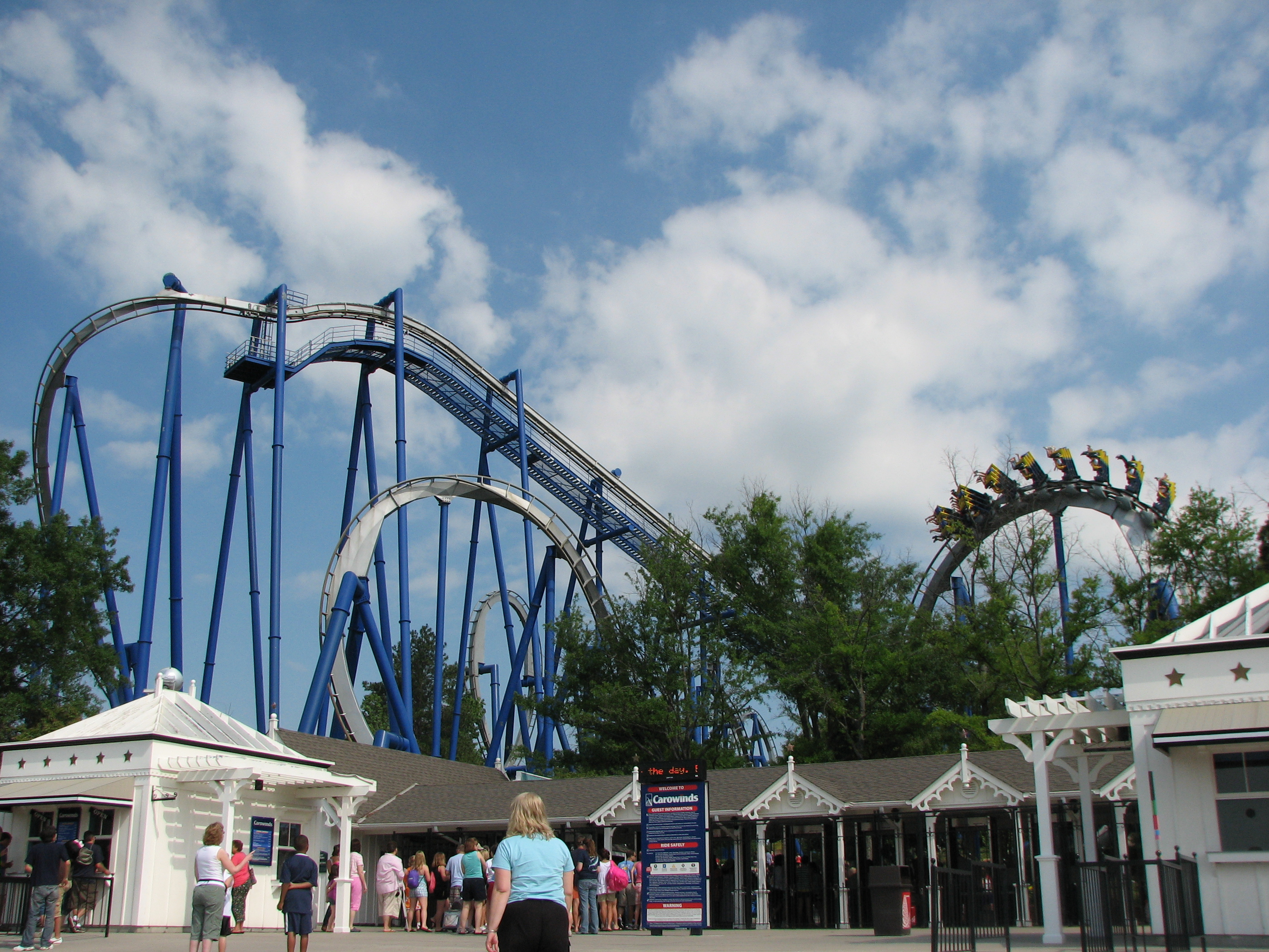 Back entrance and Afterburn